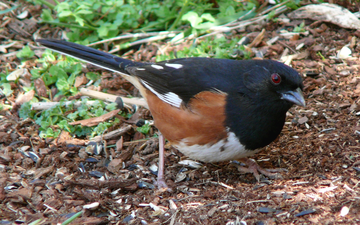 A male Eastern Towhee (Pipilo erythrophthalmus) searching for food on the ground. Photo taken with a Panasonic Lumix DMC-FZ50 in Caldwell County, North Carolina, USA.